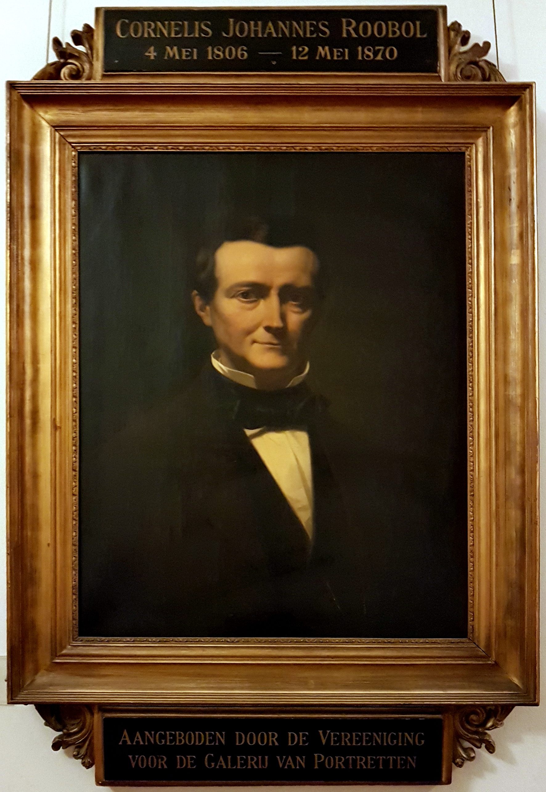 Portrait of Dutch actor and theatre director Cornelis Johannes Roobol (1806-1870) by Moritz Calisch in a corridor of Stadsschouwburg, Amsterdam's municipal theatre on Leidseplein, Amsterdam, the Netherlands.